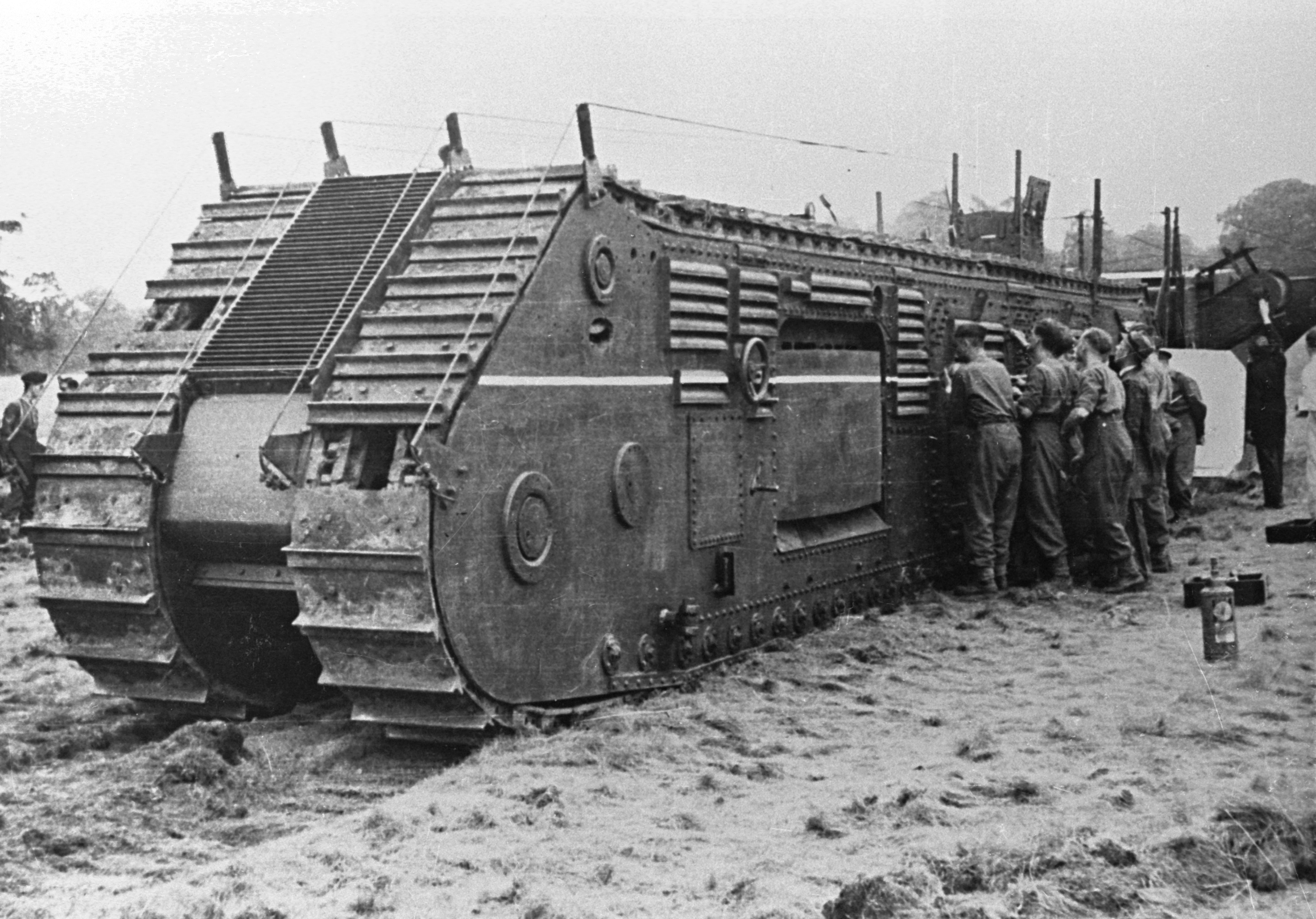 A view of the Land Excavating Trenching otherwise known as White Rabbit No. 6, Cultivator No. 6 or Nellie. This machine was an underground tank developed in 1939-1940 and designed to travel across no-man's land in a trench of its own making. Nellie above ground rear three quarters view.